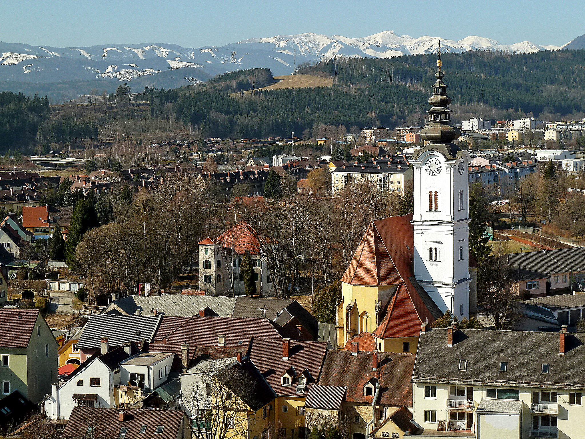 Holy Trinity Church of Trofaiach and Castle Stibichhofen,in the background the Alps of Seckau